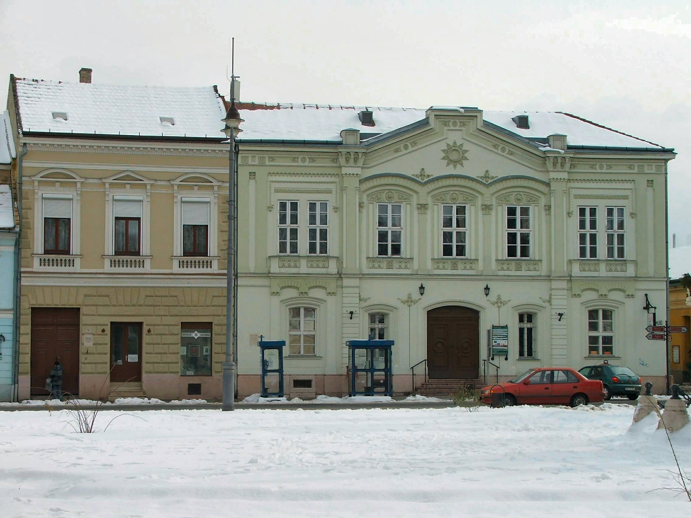 The building of the post office in Széchenyi square in Esztergom, Hungary.